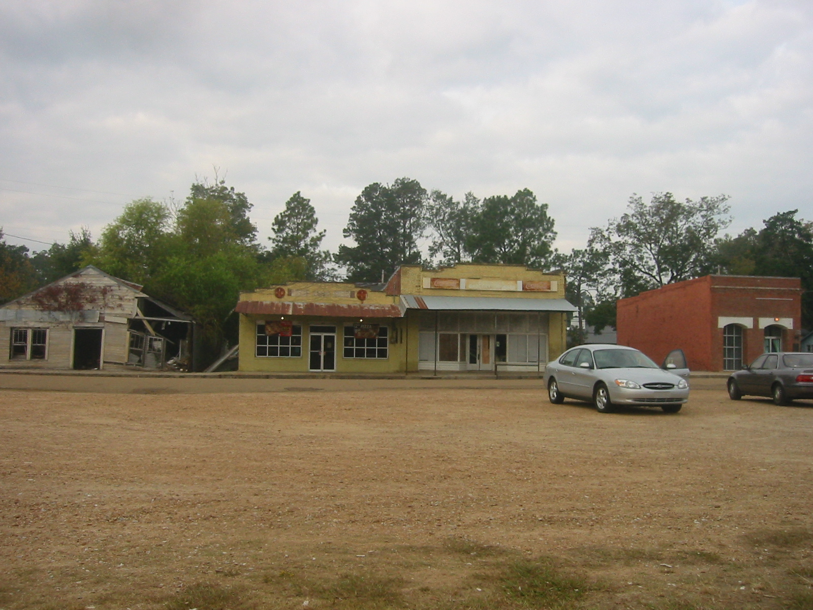 Every home in Roxie has high speed fiber optic cable service directly to their premise. There are mobile homes in Roxie with better bandwidth than some Manhattan neighborhoods.